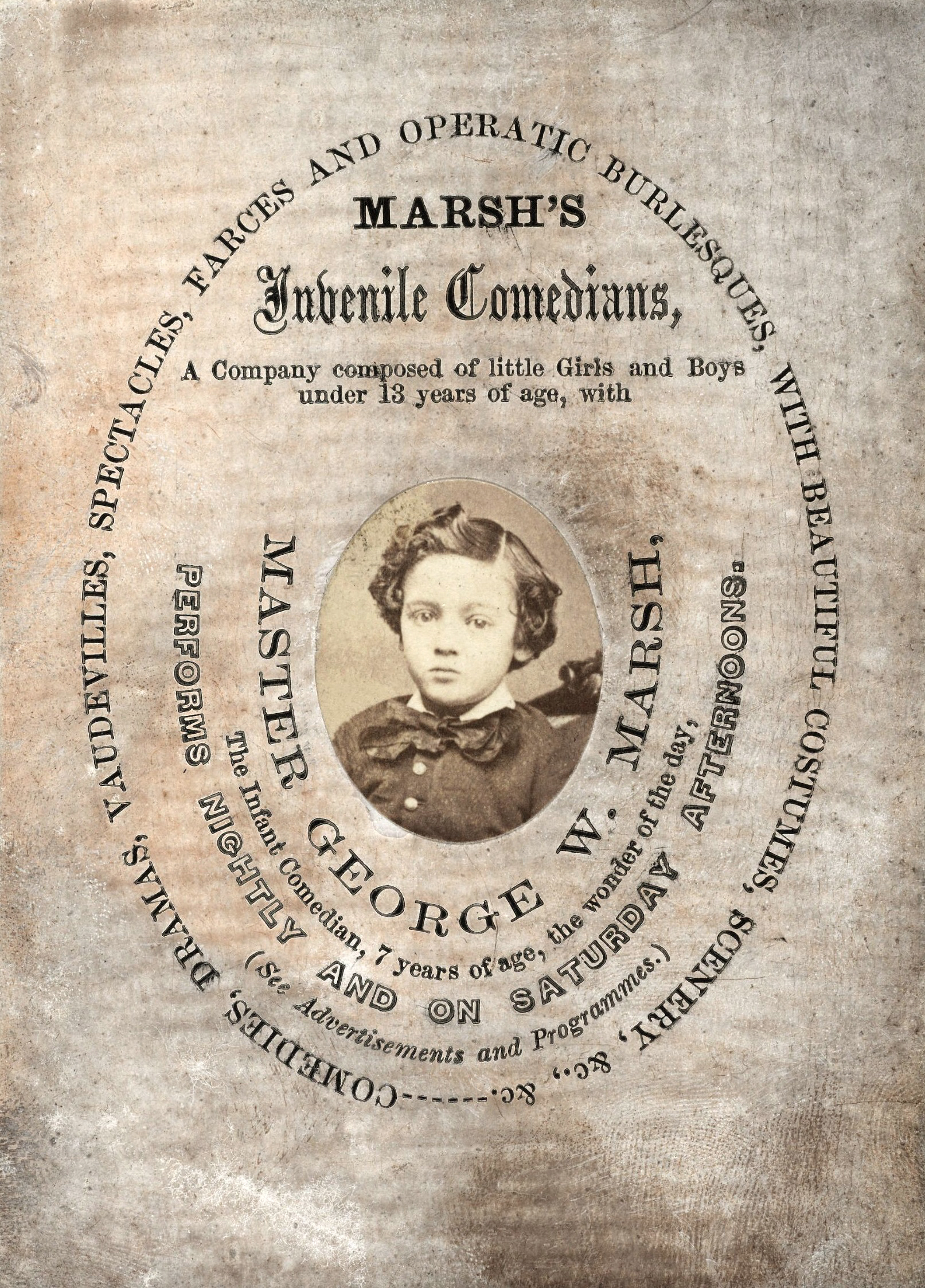 Promotional card for Marsh's Juvenile Comedians, a group of performers under age 13, including 7-year old "infant comedian" George W. Marsh photograph at the center. HTC Clippings 14. Harvard Theatre Collection, Houghton Library, Harvard University.